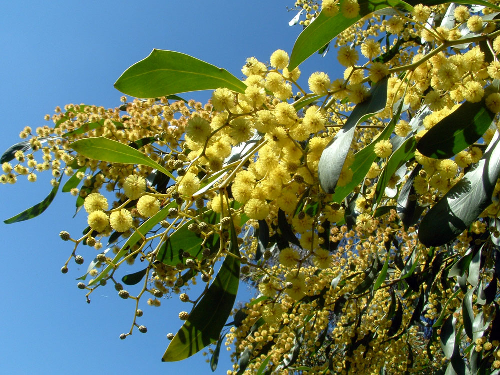 Golden Wattle in full flower on the banks of the Murrumbidgee River in Wagga Wagga, New South Wales, Australia